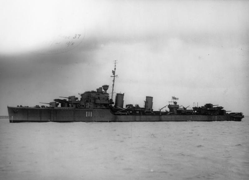 British destroyer HMS IMPULSIVE underway.